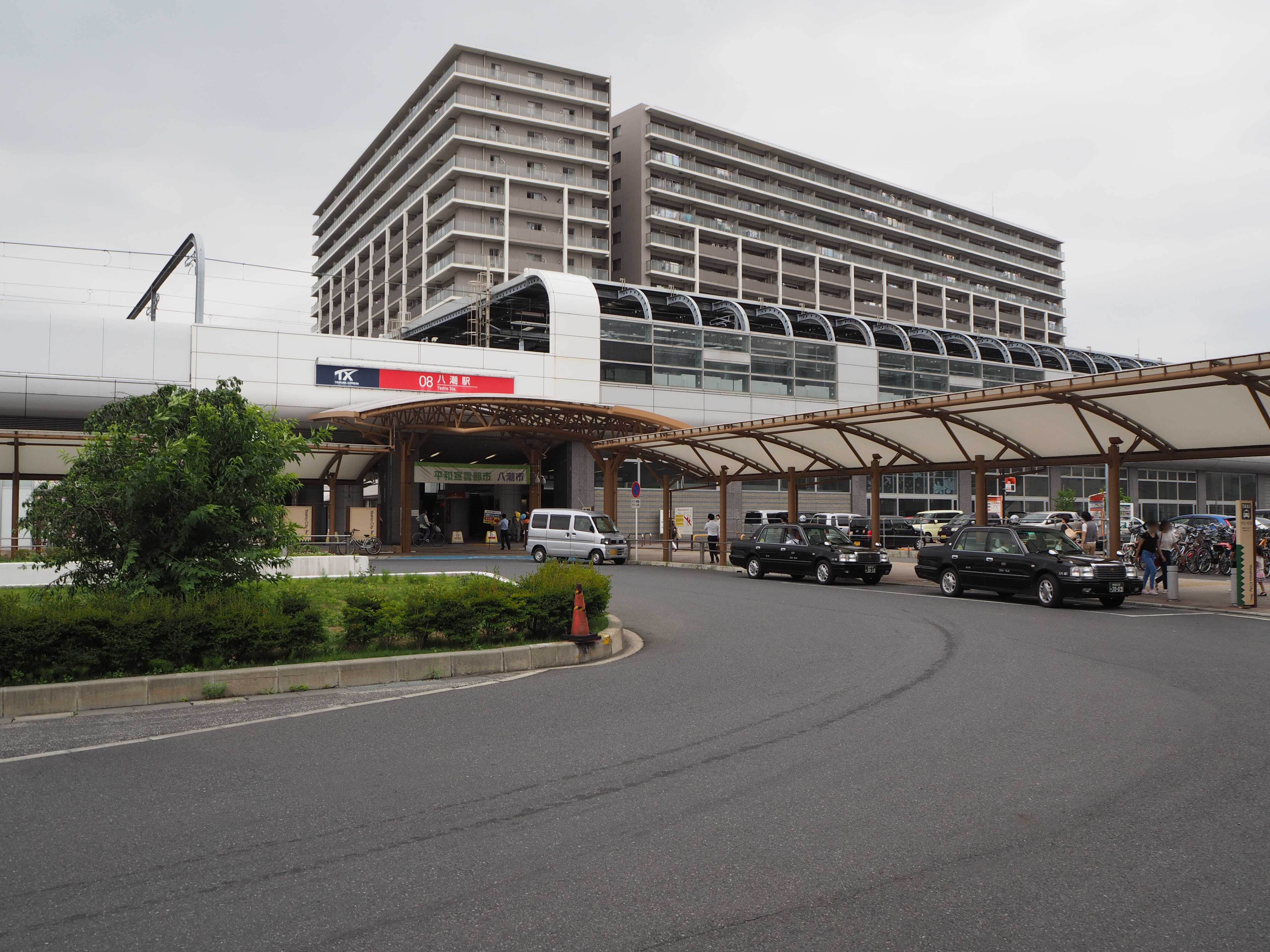 South Entrance of Yashio Station